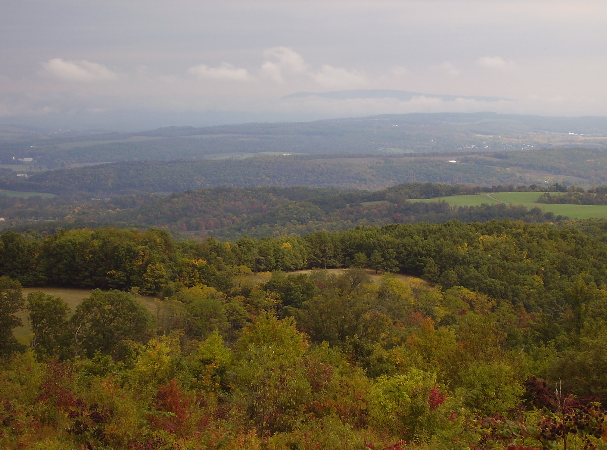 View from the Glade Pike on Dry Ridge in southern Bedford County, near Manns Choice.